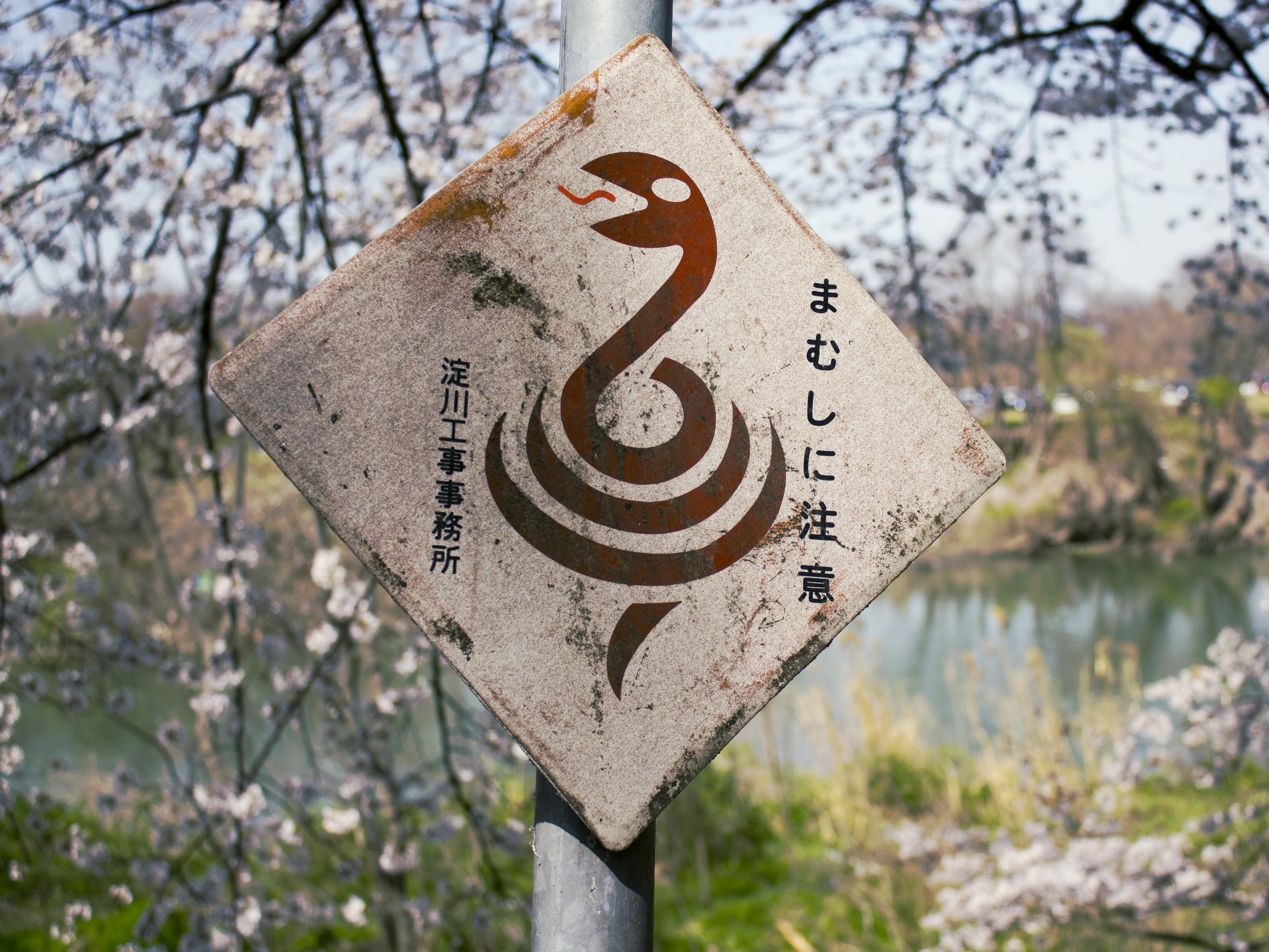 A warning sign that stands next to the Yodo River in Osaka Prefecture in Japan, saying "まむしに注意" ("mamushi ni chuui") ("Be careful of mamushi"). The mamushi is a venomous pit viper, causing 2000–3000 snake bites every year in Japan and killing around 10 people per year. Flowering cherry blossom trees and the river itself can be seen behind the sign. The rest of the sign reads "淀川工事事務所" (yodogawa kouji jimusho)" ("Yodo River Works Office", a river authority that is part of the Ministry of Land, Infrastructure, Transport, and Tourism).